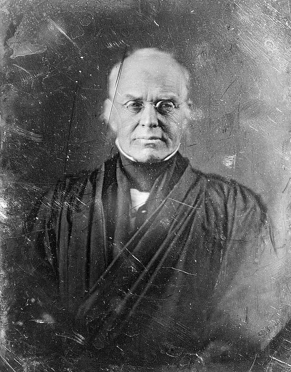 Joseph Story (1779-1845)